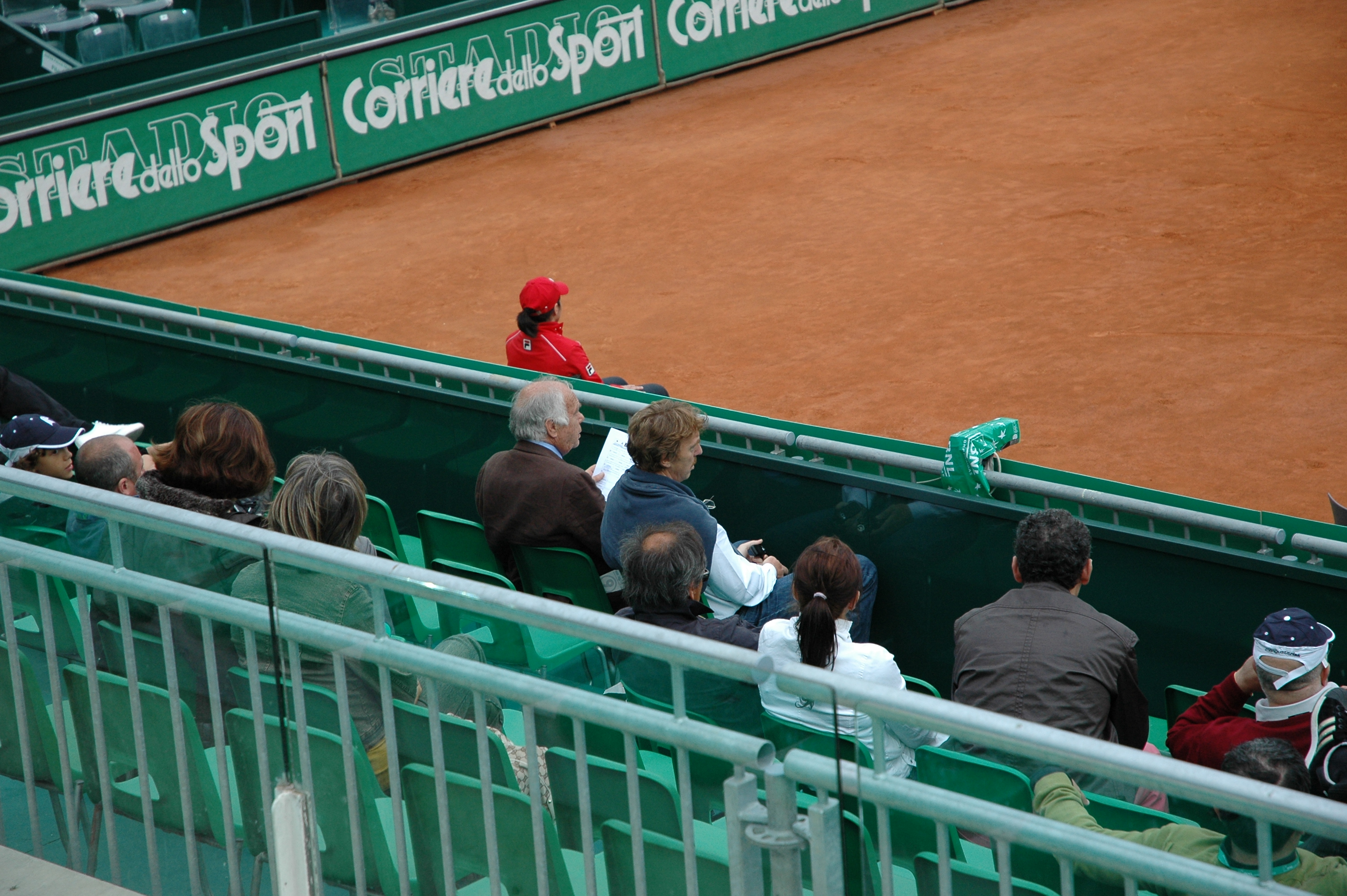 Zbigniew Boniek during 2008 Internazionali BNL d'Italia (women's first round).